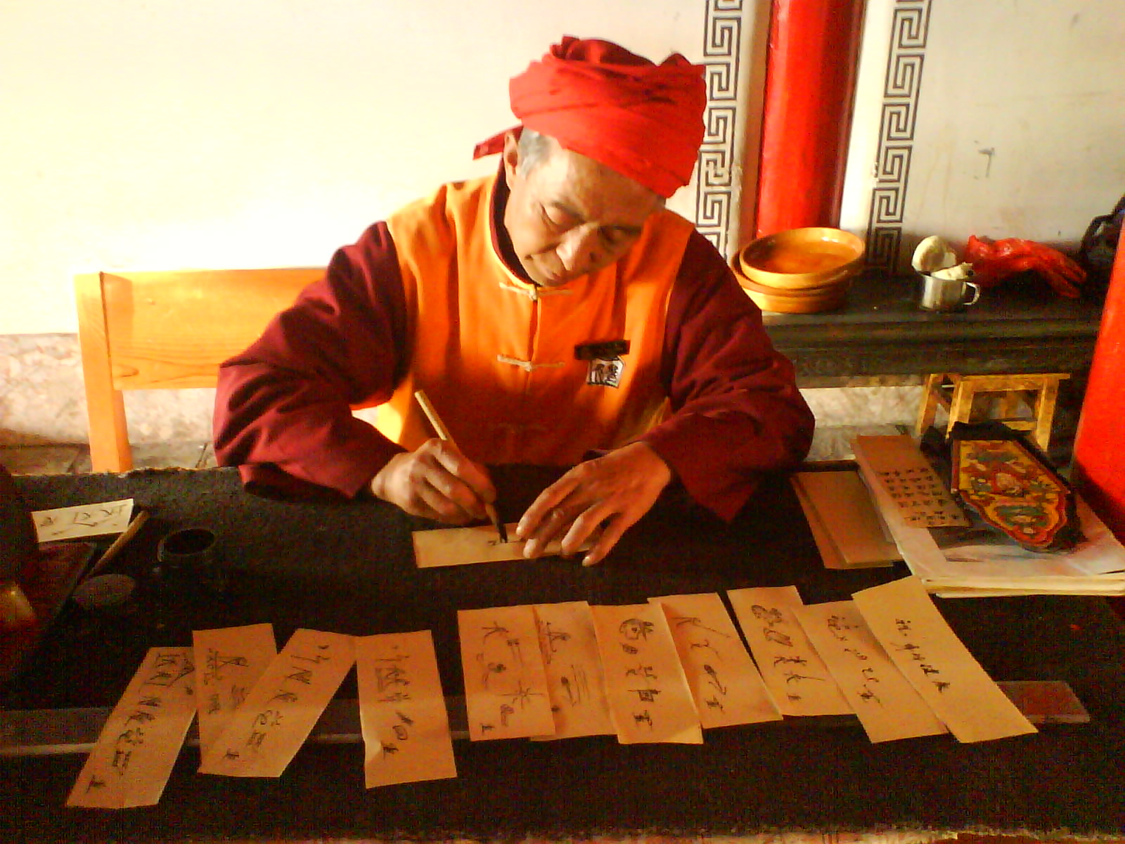 Dongba priest and Oracle calligraphing with calam in Dongba script in a Dongba temple near Lijiang.